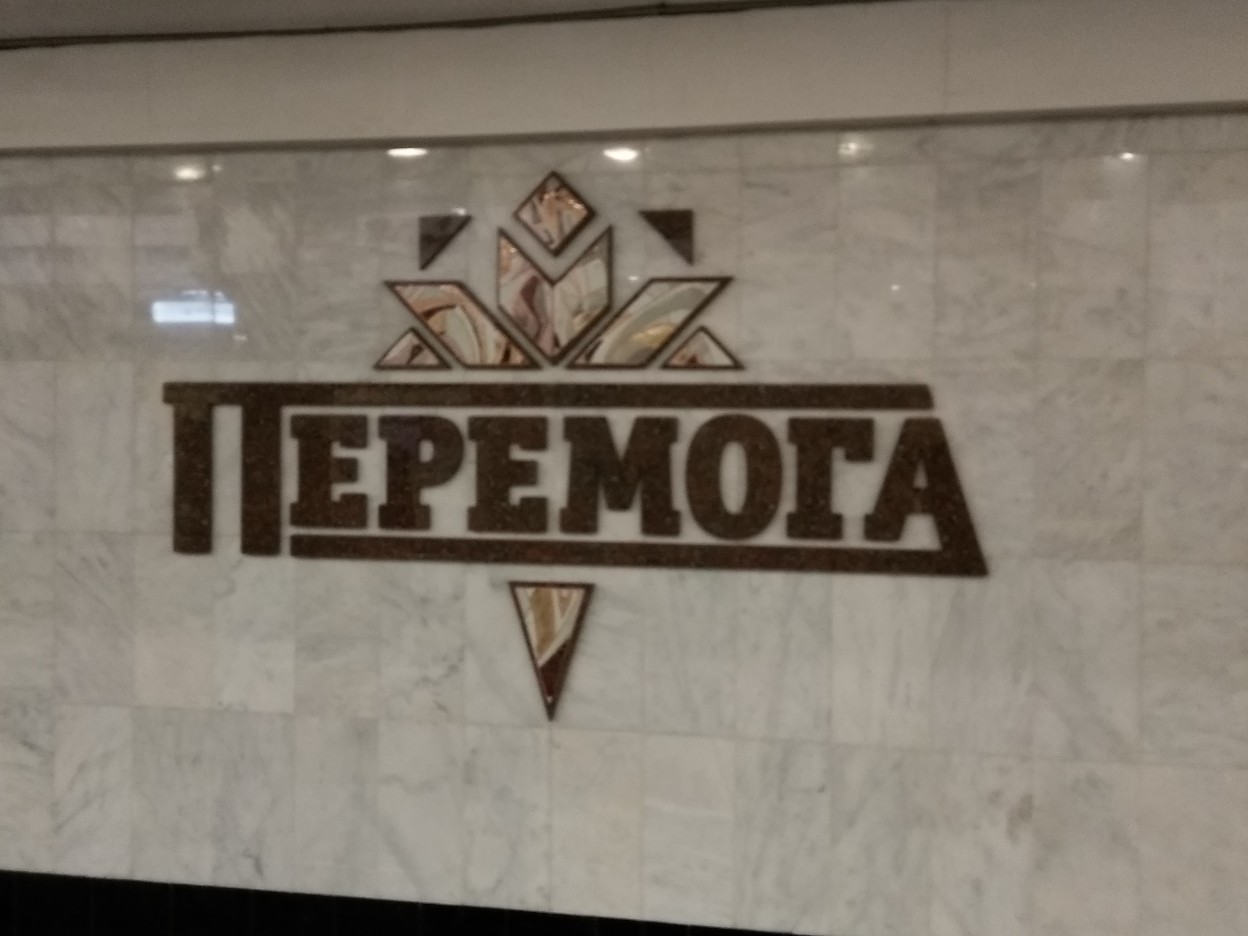 Рeremoga - metro station, Kharkiv.